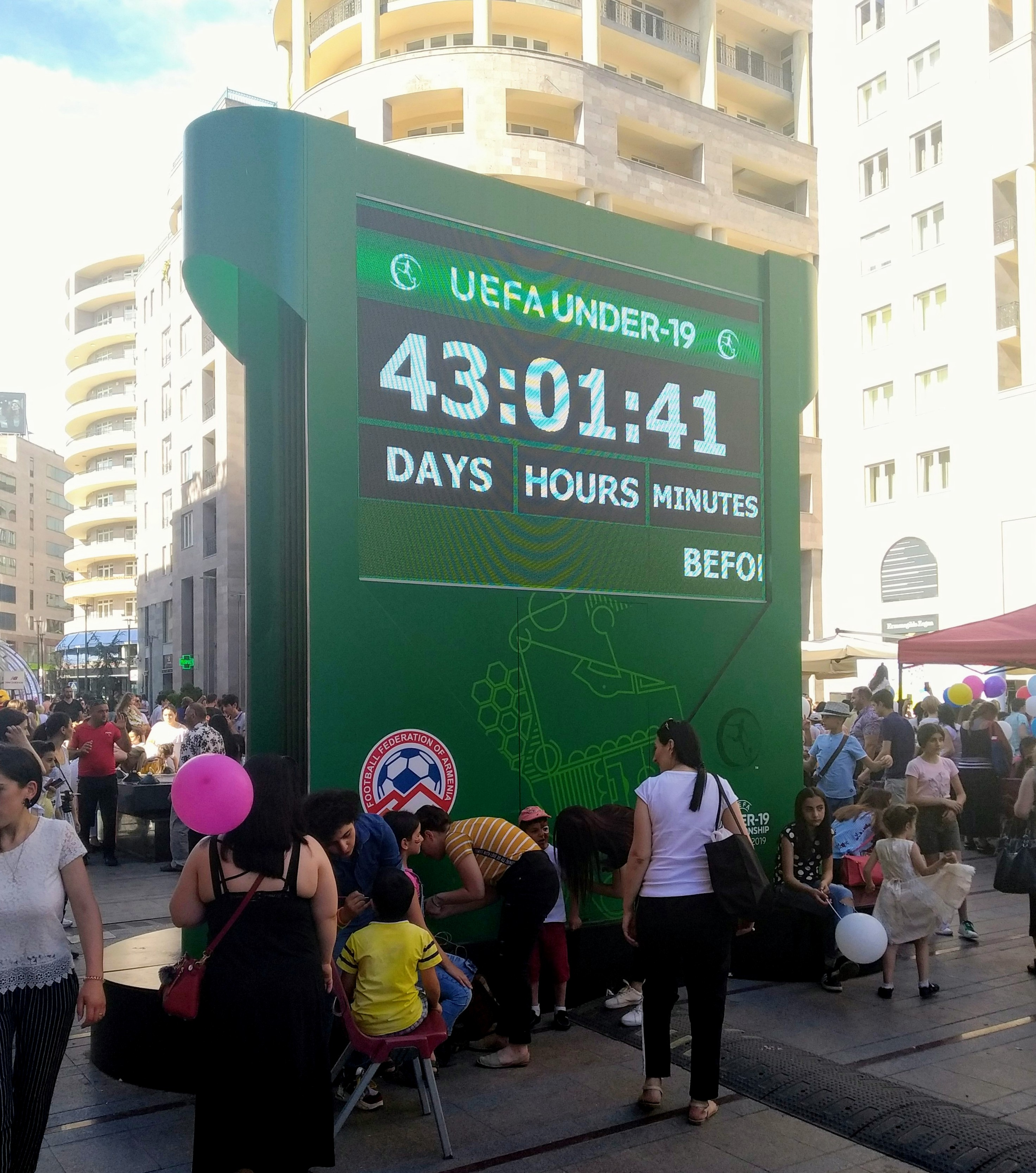 2019 UEFA European Under-19 Championship countdown in Yerevan